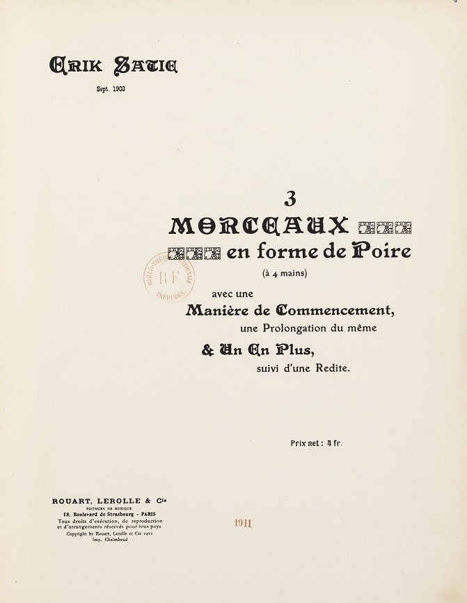 Cropped, adjusted version of PD image from BNF